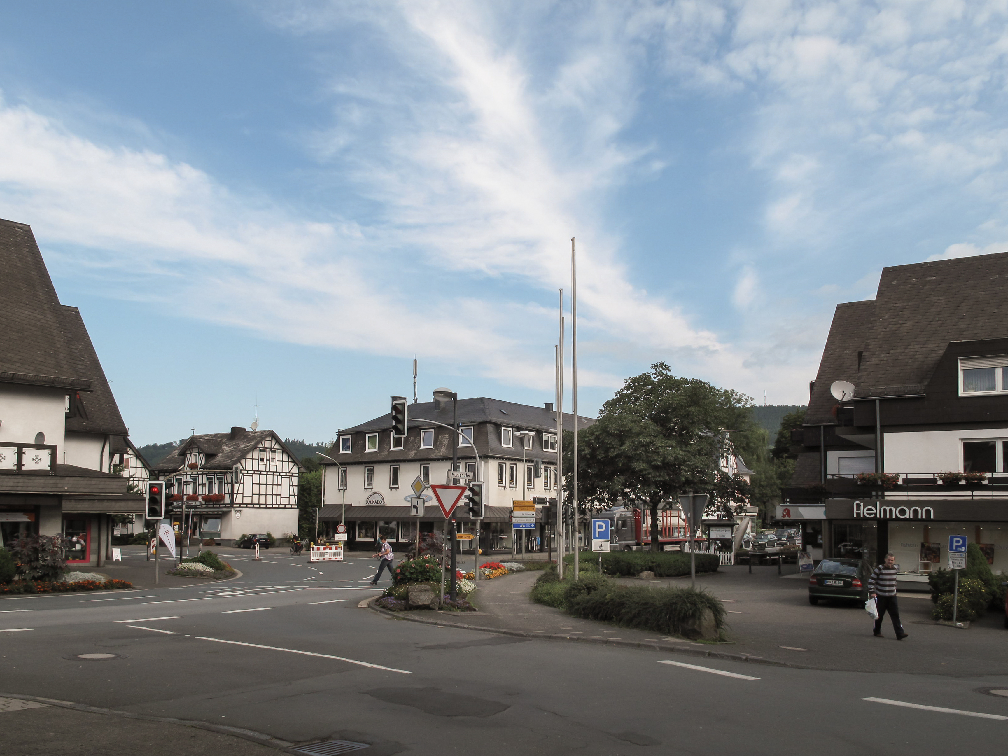 Olsberg, view to a street